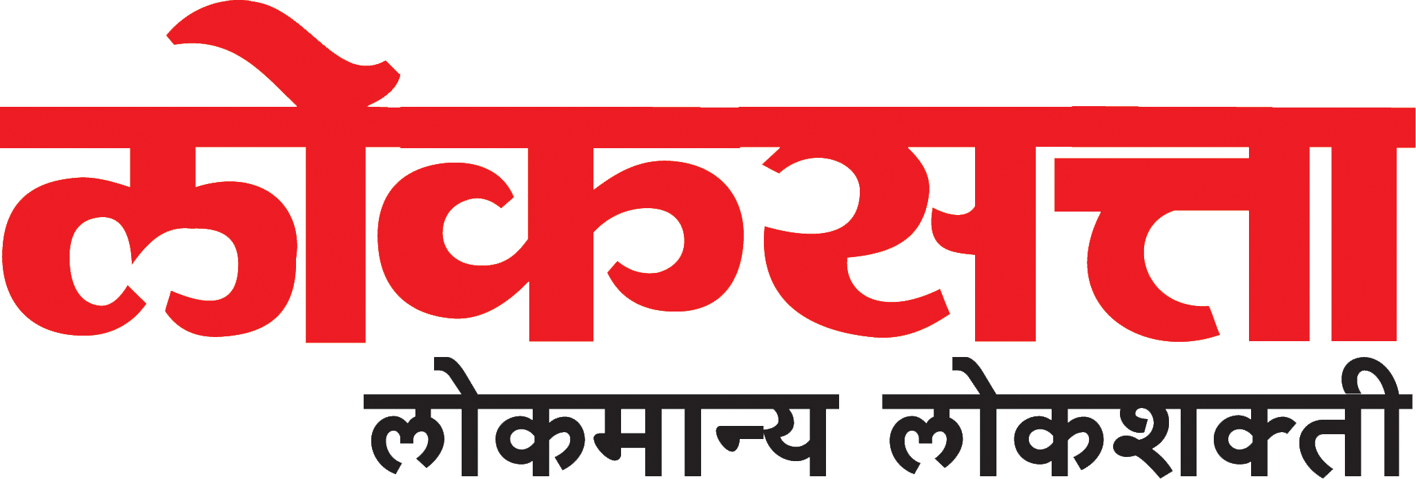 This is the brand logo of Loksatta, the leading Marathi daily of Maharashtra.